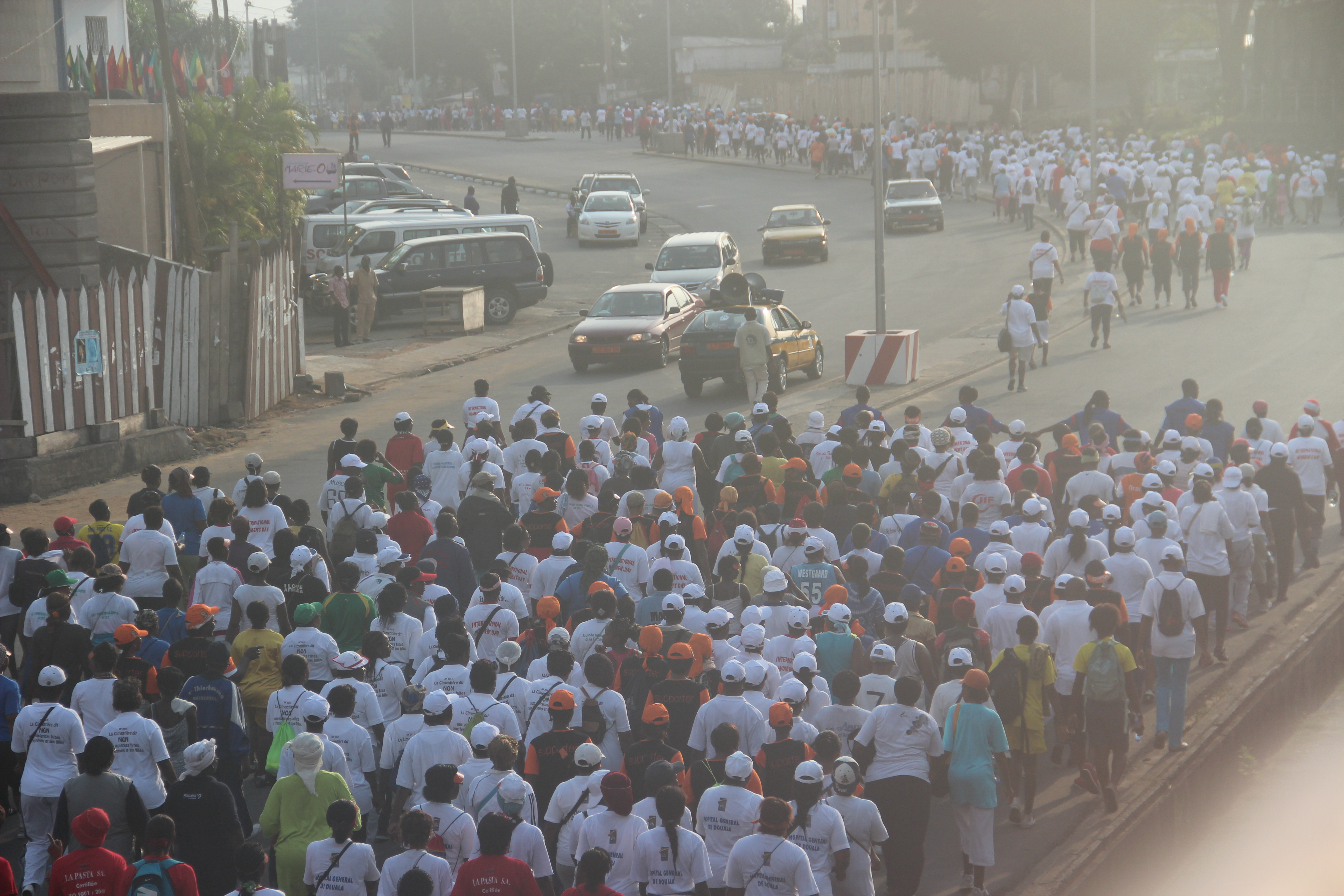 International Women's Day in Douala, Cameroon.